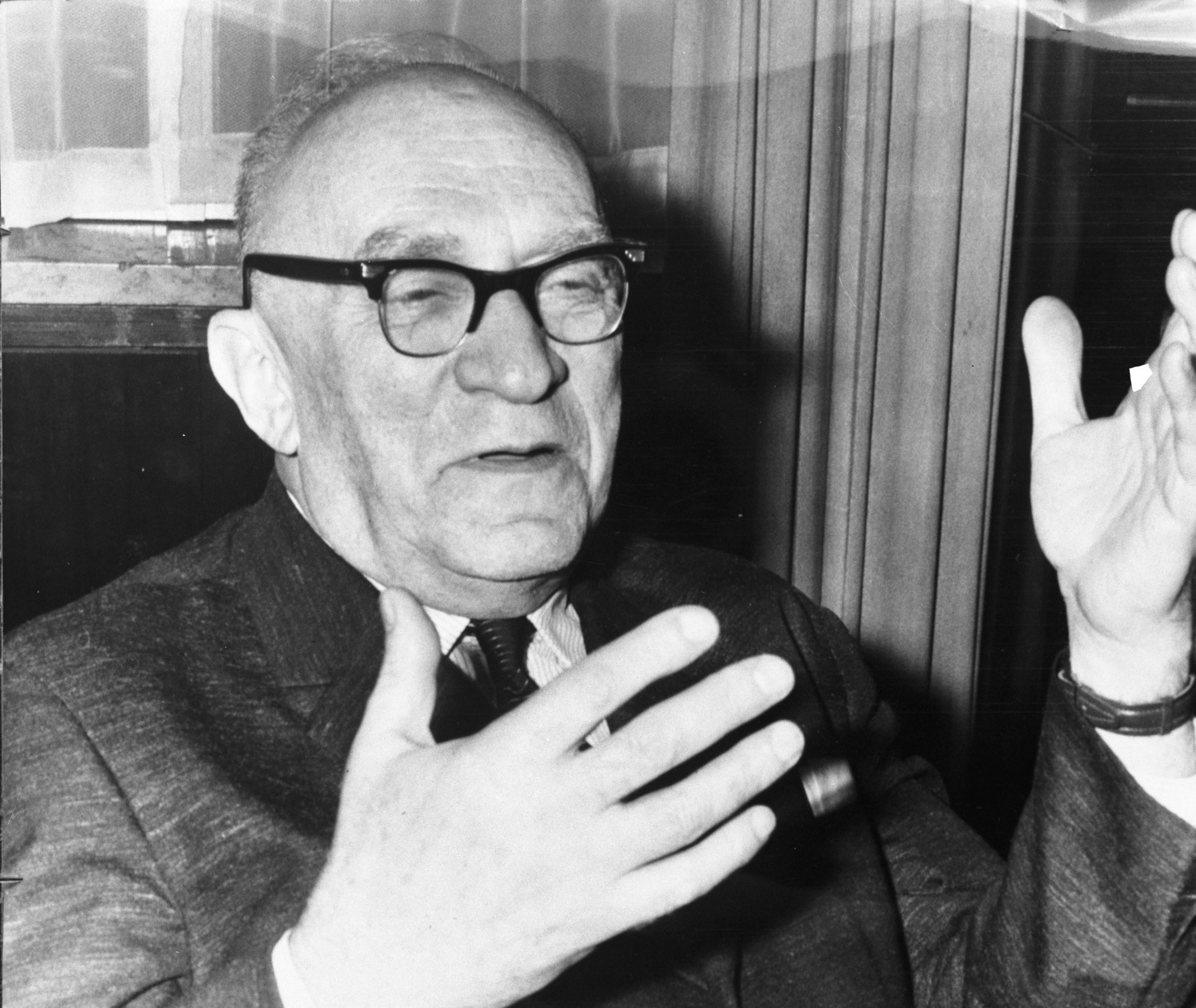 E. Liberman , Russische econoom.